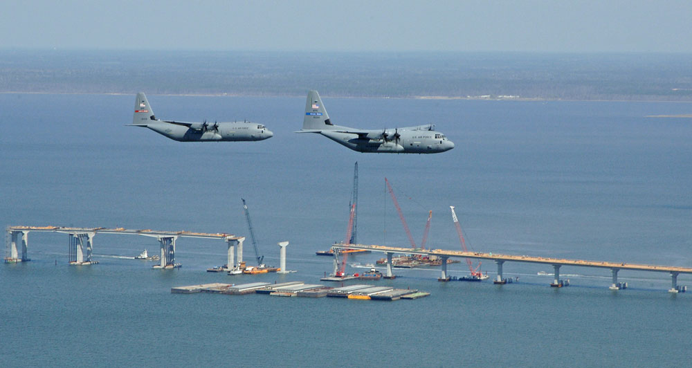 "Hurricane Hunters" such as these aircraft, the WC-130J (right) and C-130J-30, are part of the Air Force Reserve's 403rd Wing located at Keesler Air Force Base, Miss.